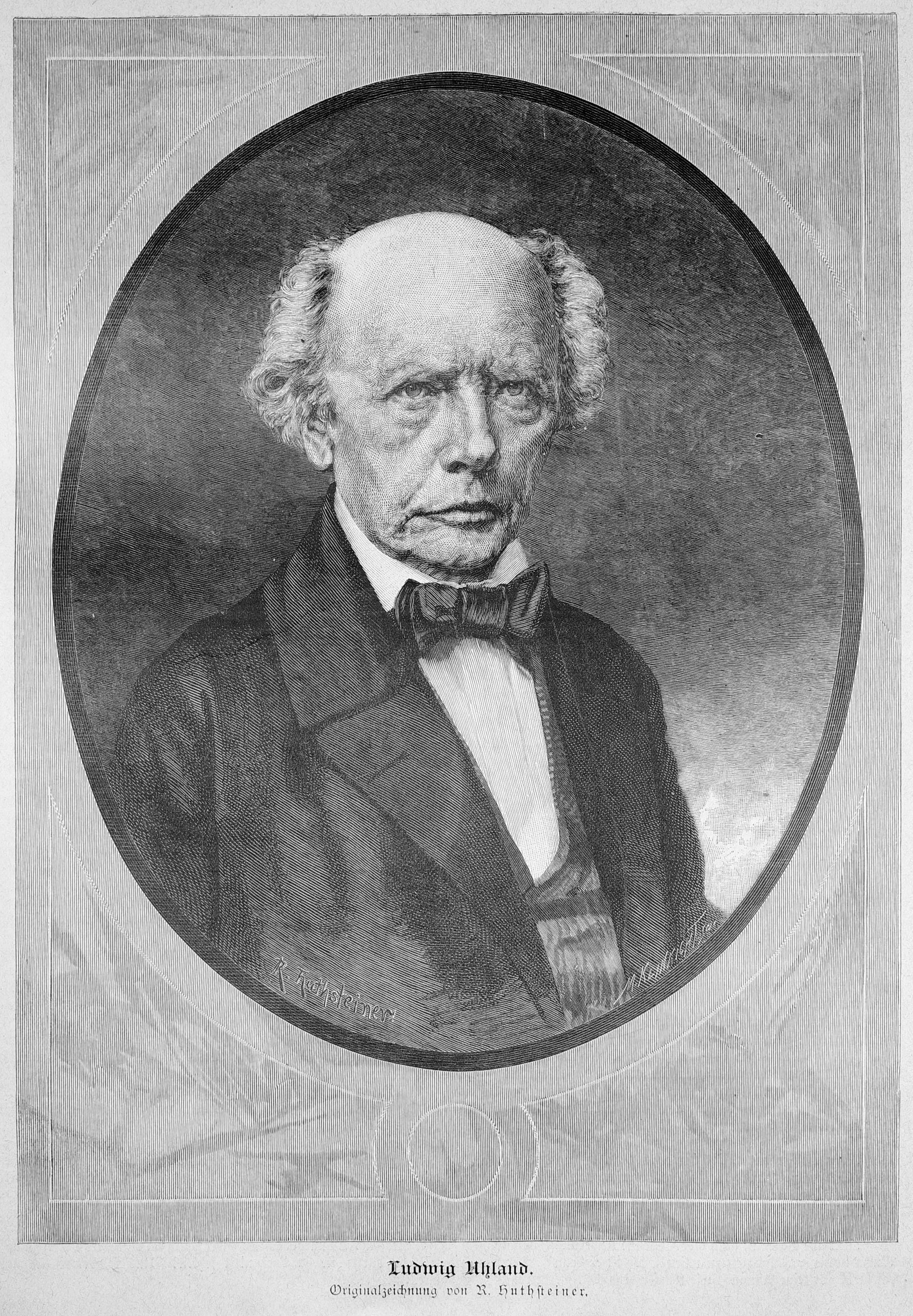 caption: "Ludwig Uhland. Originalzeichnung von R. Huthsteiner."